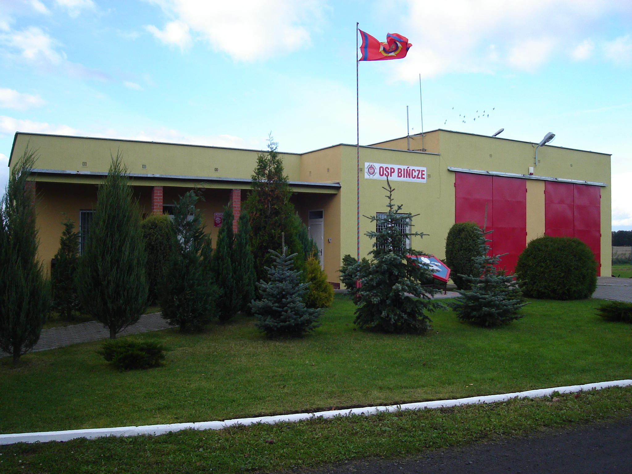 Voluntary Fire Brigade house in Bińcze